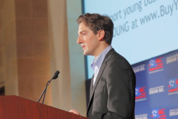 Matthew Segal, co-founder and president of OUR TIME, speaking at the Buy Young Launch Event.